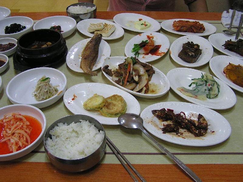 Korean style table with food